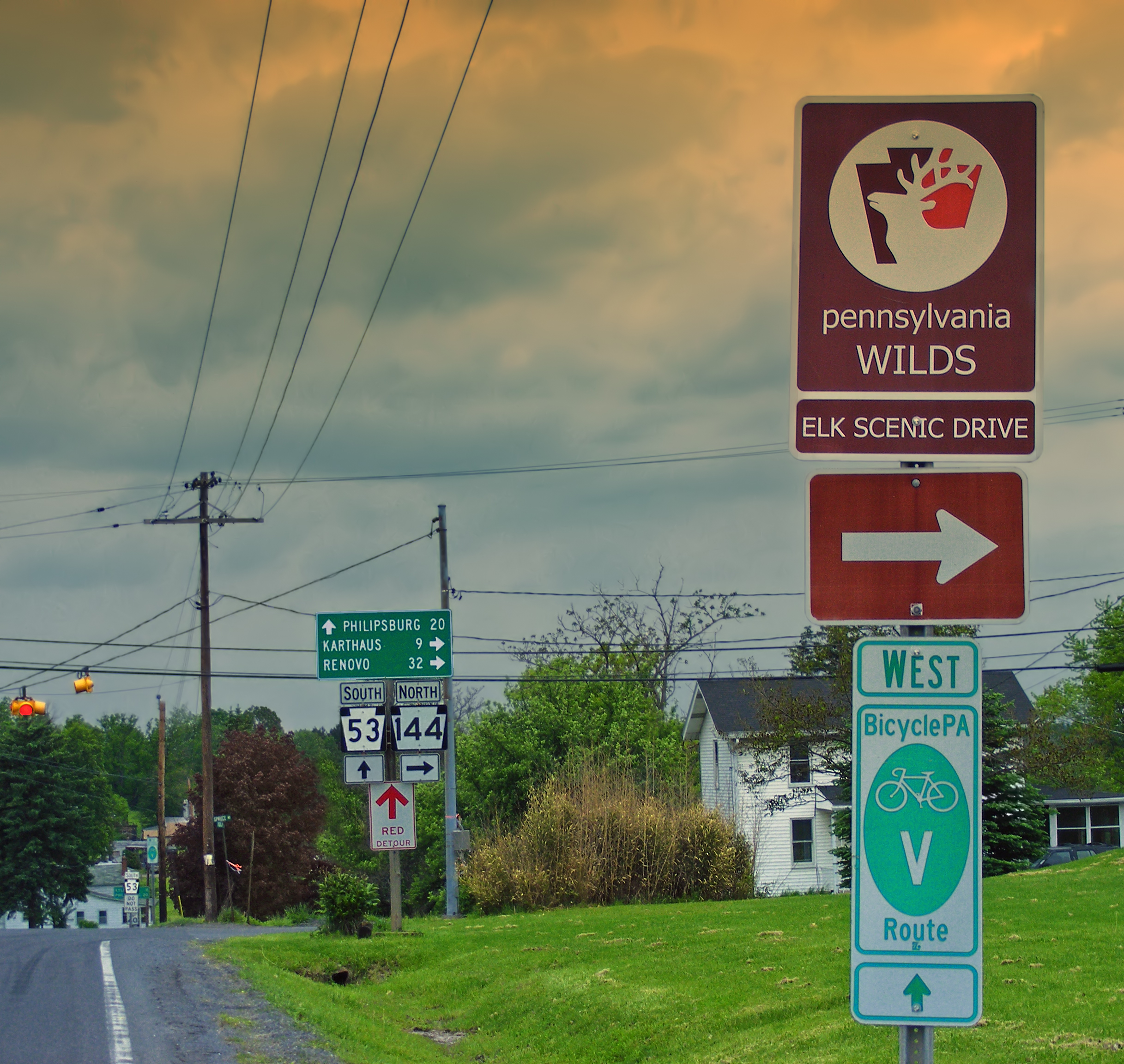 Signage, Route 144, Centre County, within the village of Moshannon. The Pennsylvania Wilds: Elk Scenic Drive sign appears frequently along Route 144 between the towns of Snow Shoe and Renovo. You're more likely to see elk, however, from the Quehanna Highway (Route 879).